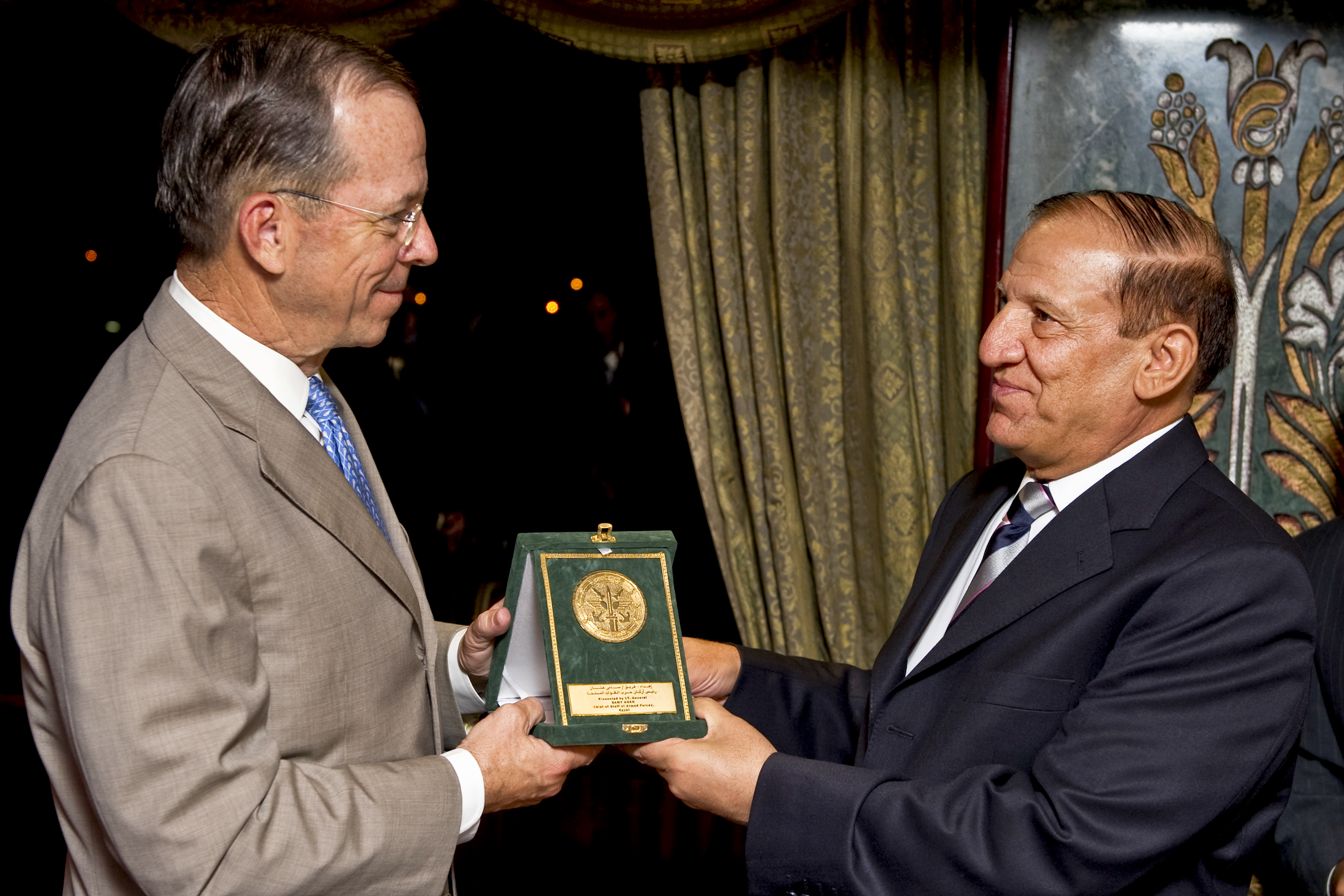 Egyptian Army Lt. Gen. Sami Enan, chief of staff of the Egyptian Armed Forces, presents an award to U.S. Navy Adm. Mike Mullen, chairman of the Joint Chiefs of Staff, in Cairo, June 7, 2011. Mullen is on a seven-day trip to the region meeting with counterparts and leaders.